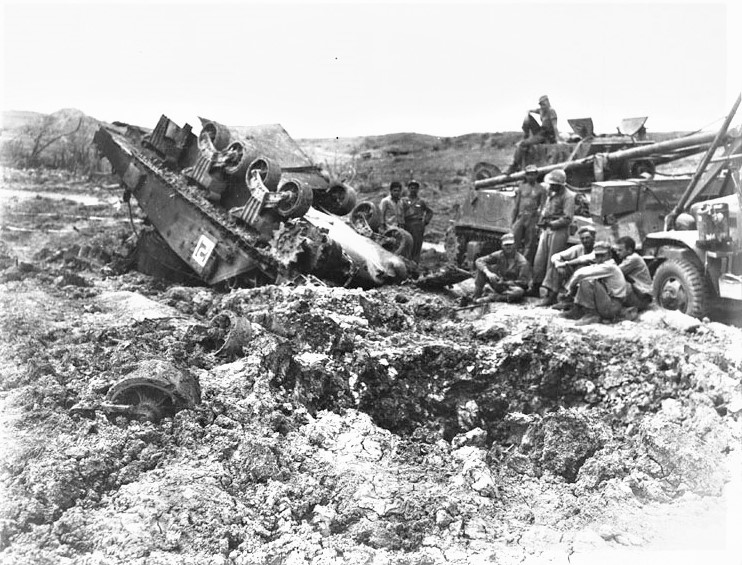 M-4 Sherman tank knocked out by land mine.